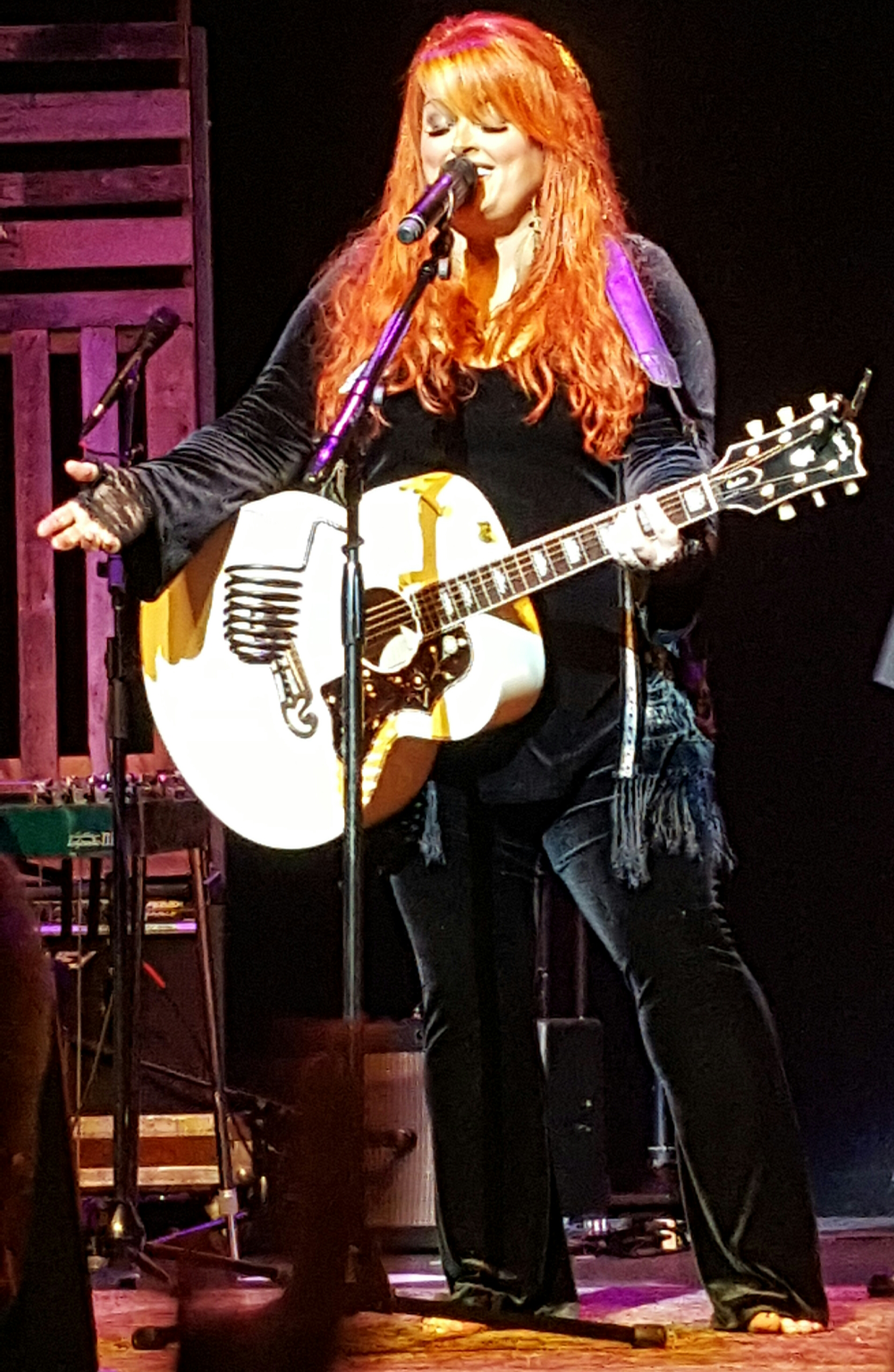 Wynonna Judd on July 24, 2016 in Emporia, Kansas.